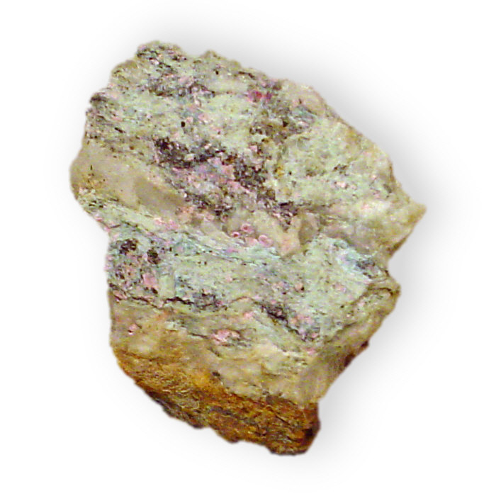 These mineral images are free to use how you wish.